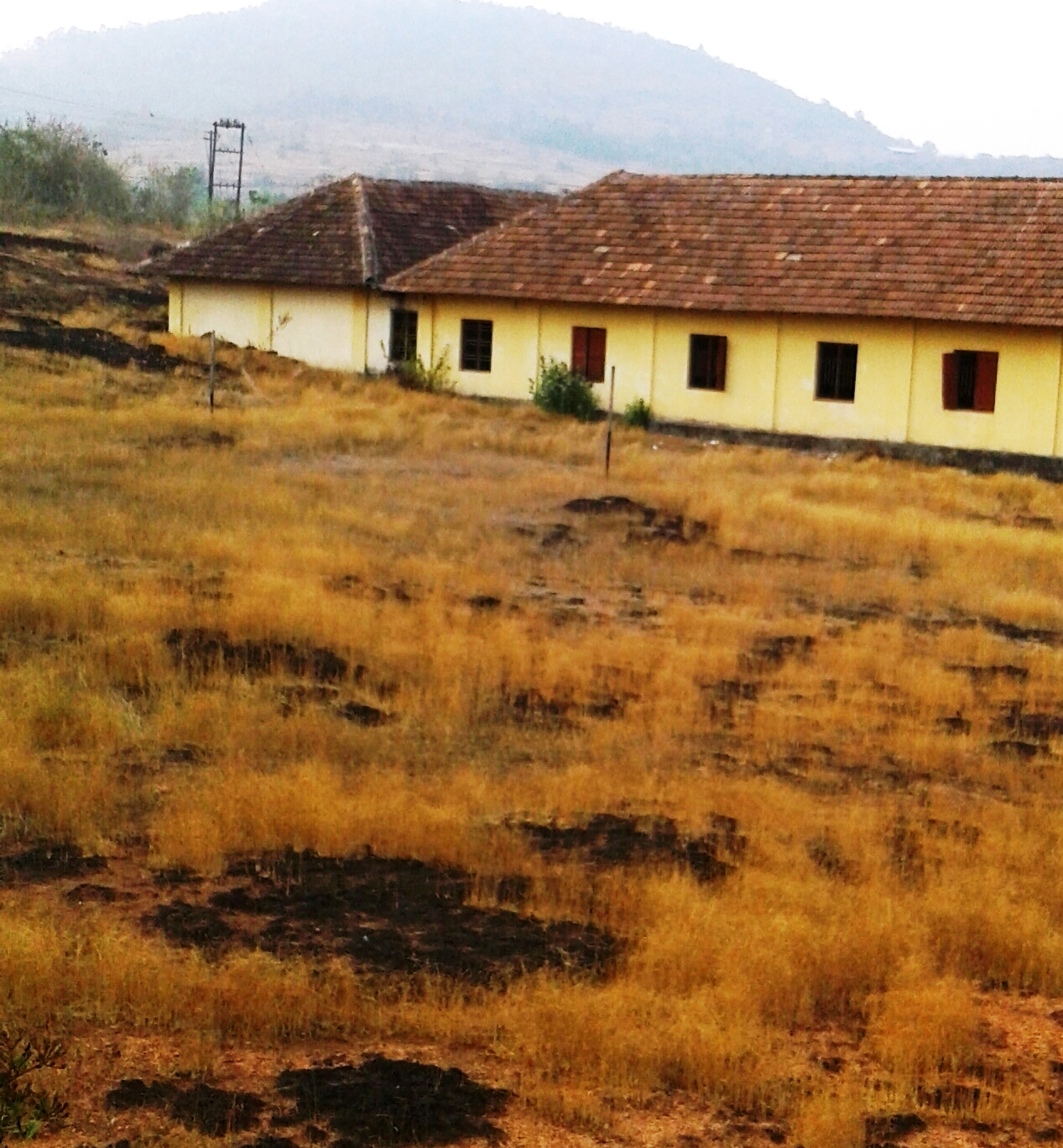 Kerala Province, India.